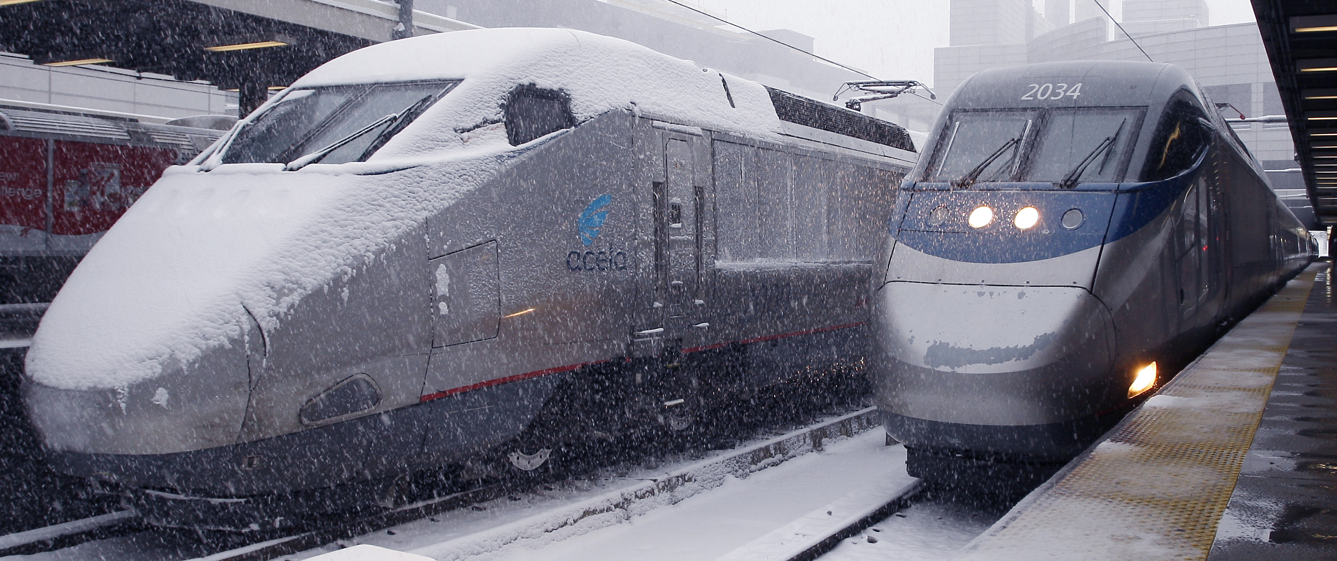 Pair of trains at South Station Boston. Acela Express trains in Boston, on the Northeast Corridor, currently the only line used for high-speed rail in the U.S.